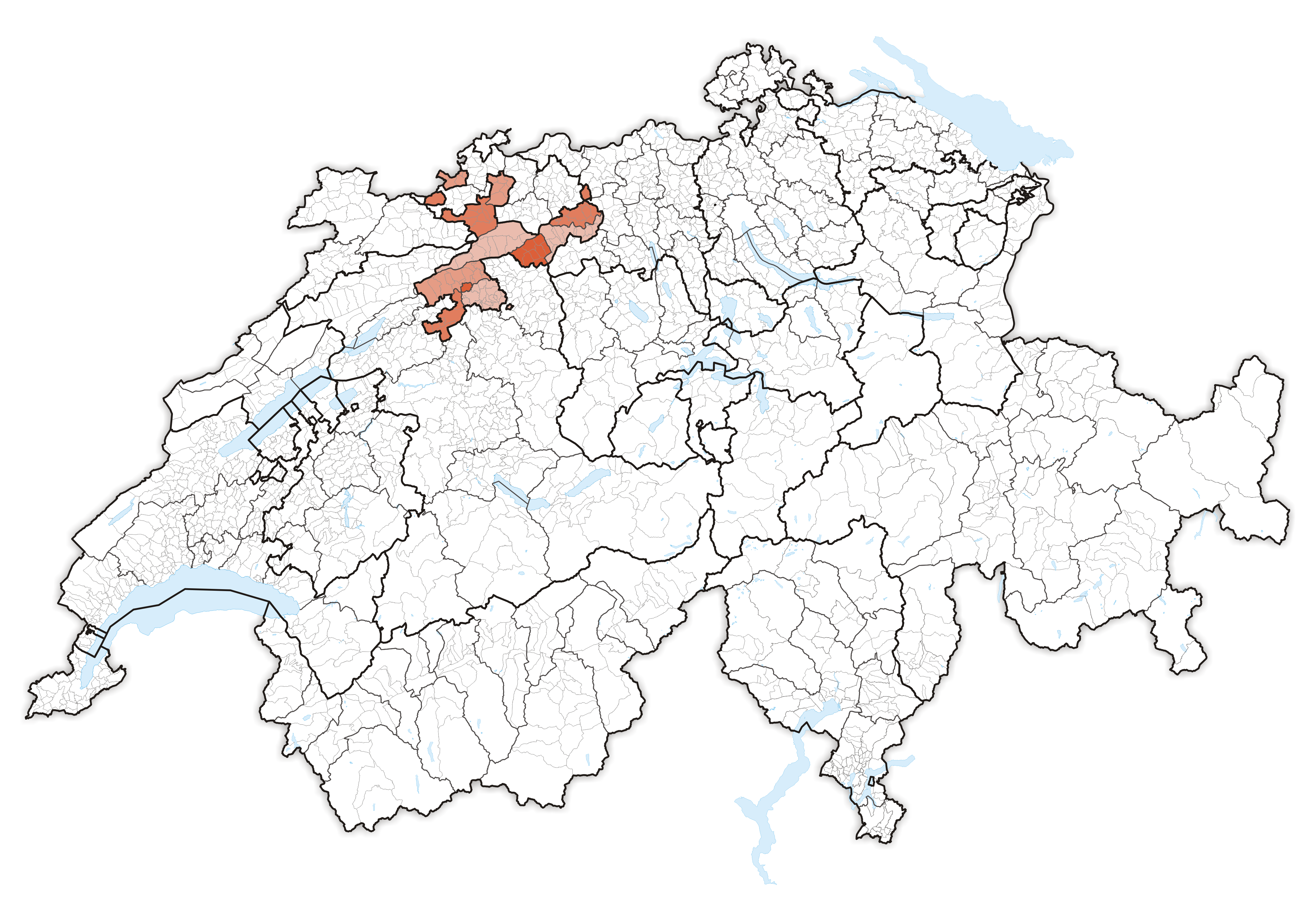 Canton Solothurn